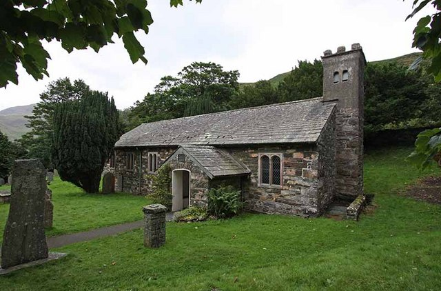 St John's in the Vale & Wythburn, Keswick, Cumbria